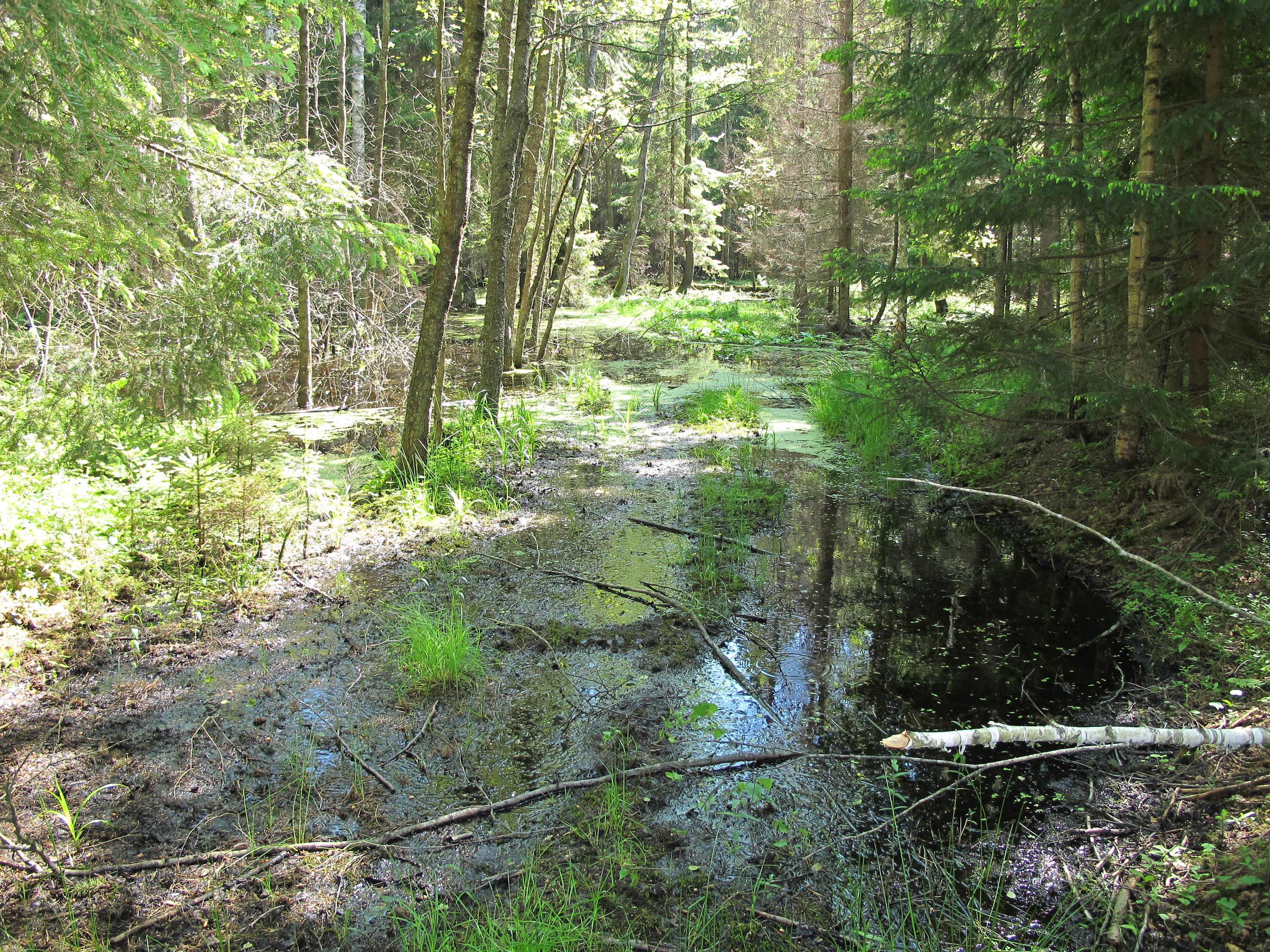 Knysztyn Forest, nature reserve Las Cieliczański, Cieliczanka (fomerly Starzynka) river backwaters (podlaskie, Poland)